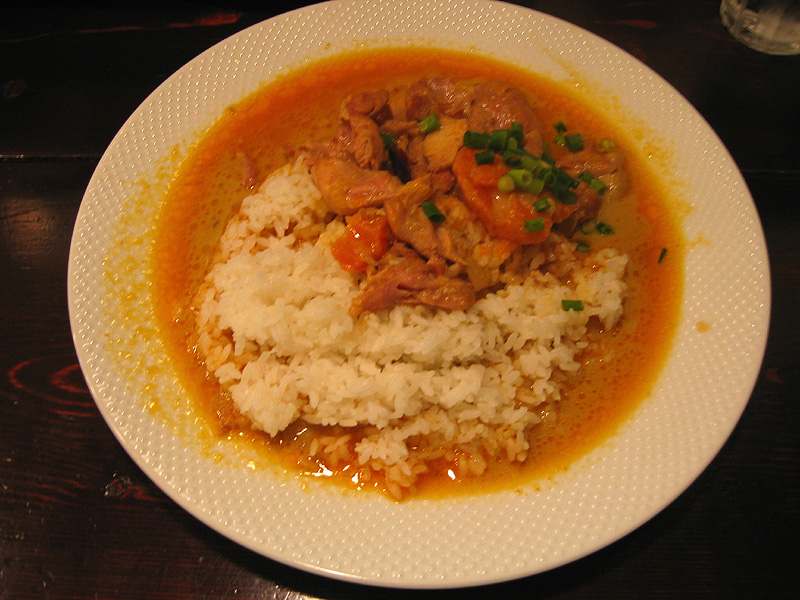 Chicken curry rice